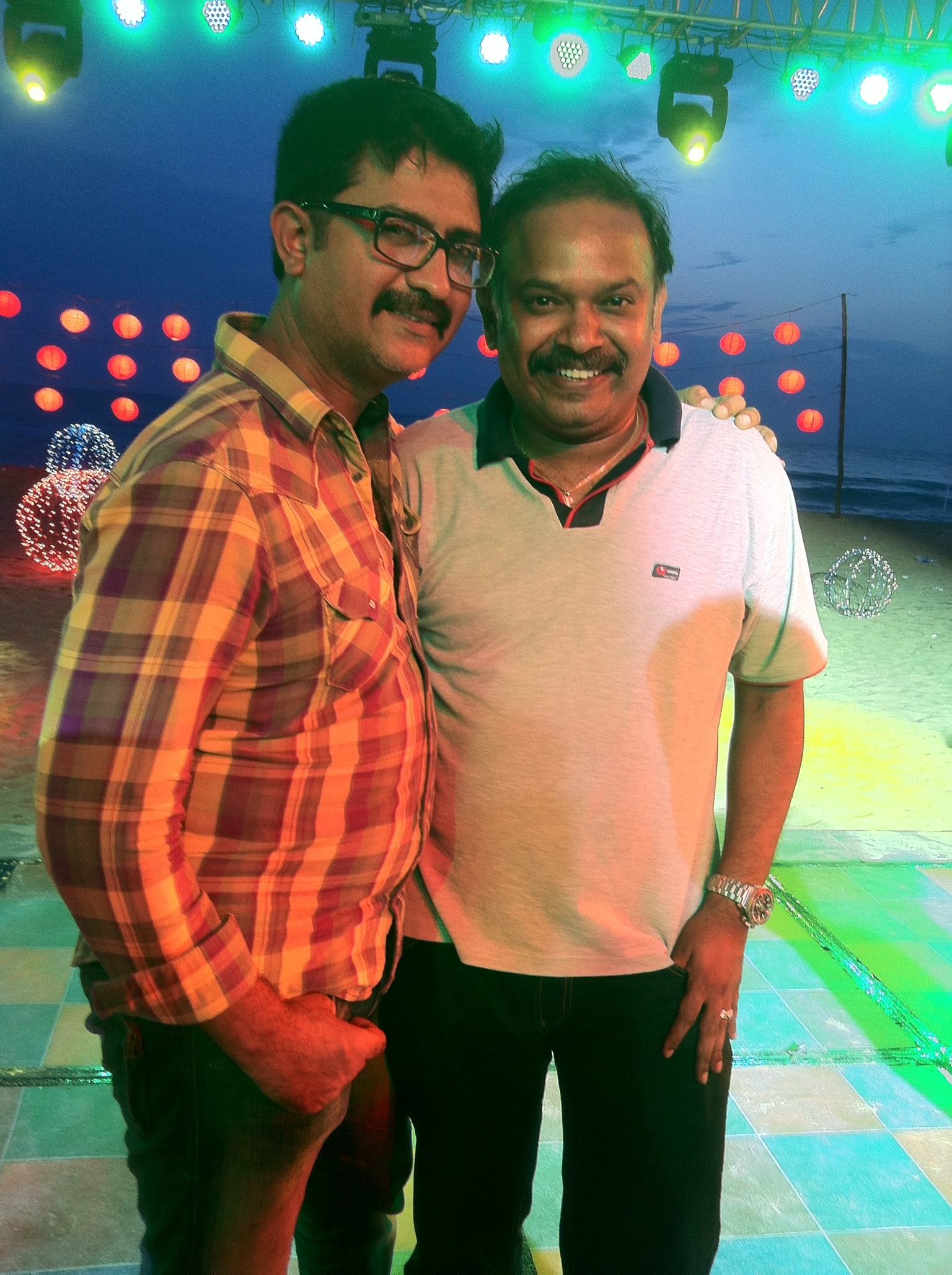 Sakthi saravanan with director Venkat prabhu